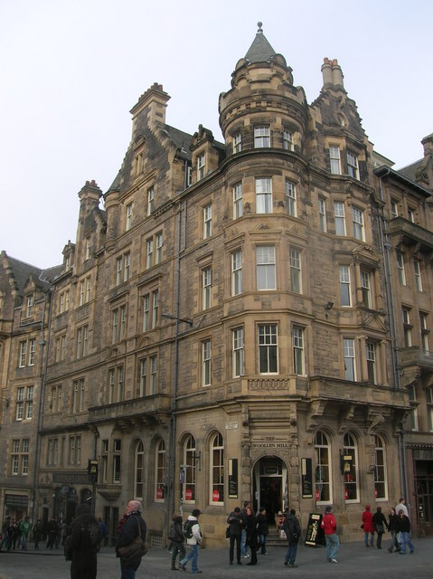 The Woollen Mill at junction with Cockburn Street and High Street Now a shop